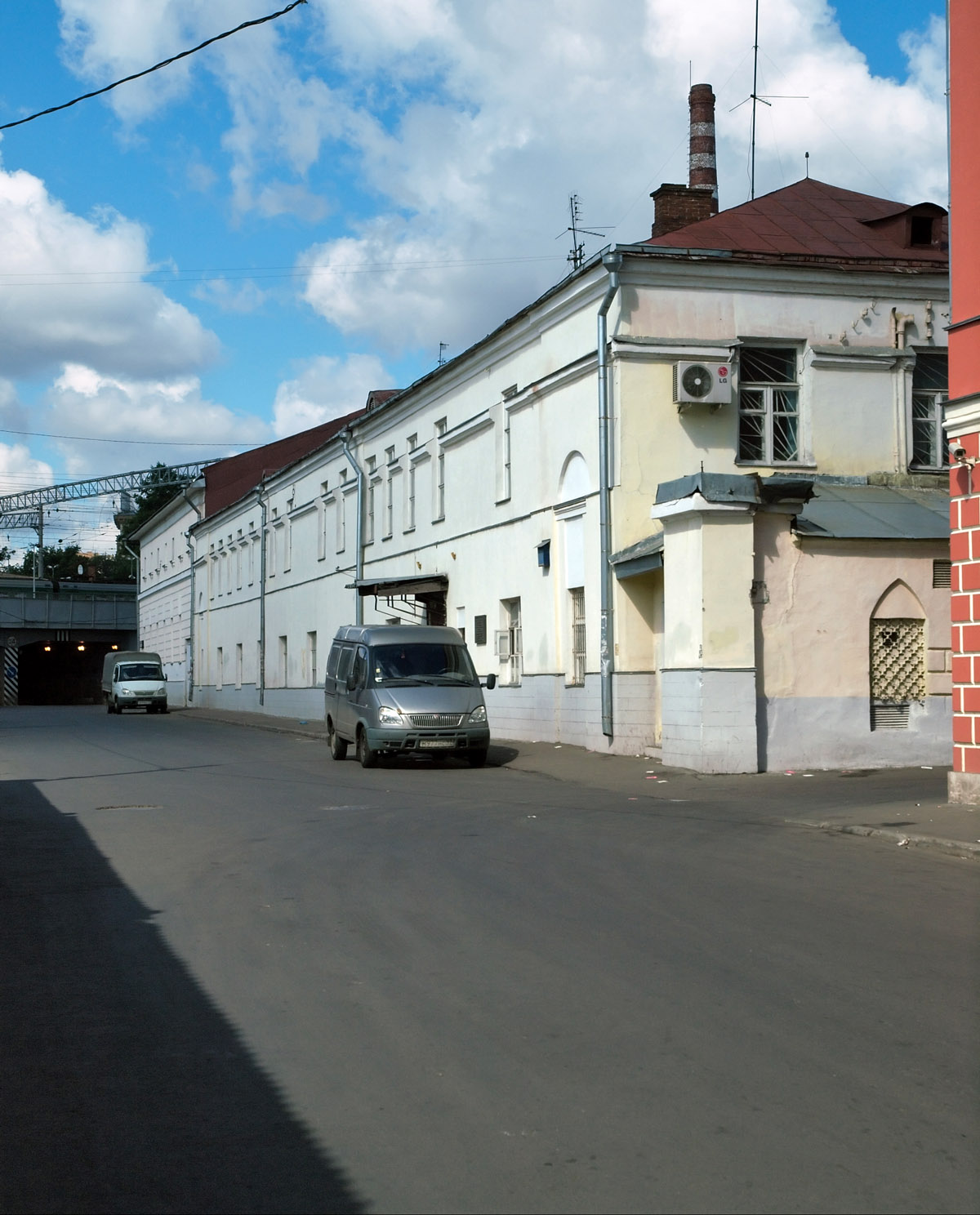 4-th Syromyatnichesky Lane (proezd), Moscow. The Novaya Bavaria brewery.